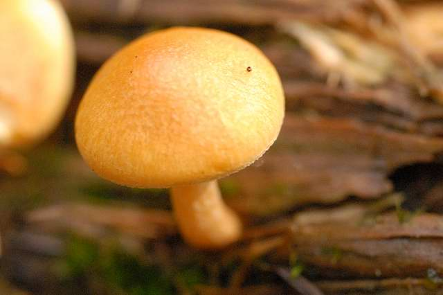 Gymnopilus penetrans from Commanster, Belgian High Ardennes. The determination of the species shown in this picture has been verified.